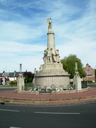 The monument aux morts of Amiens in the Somme